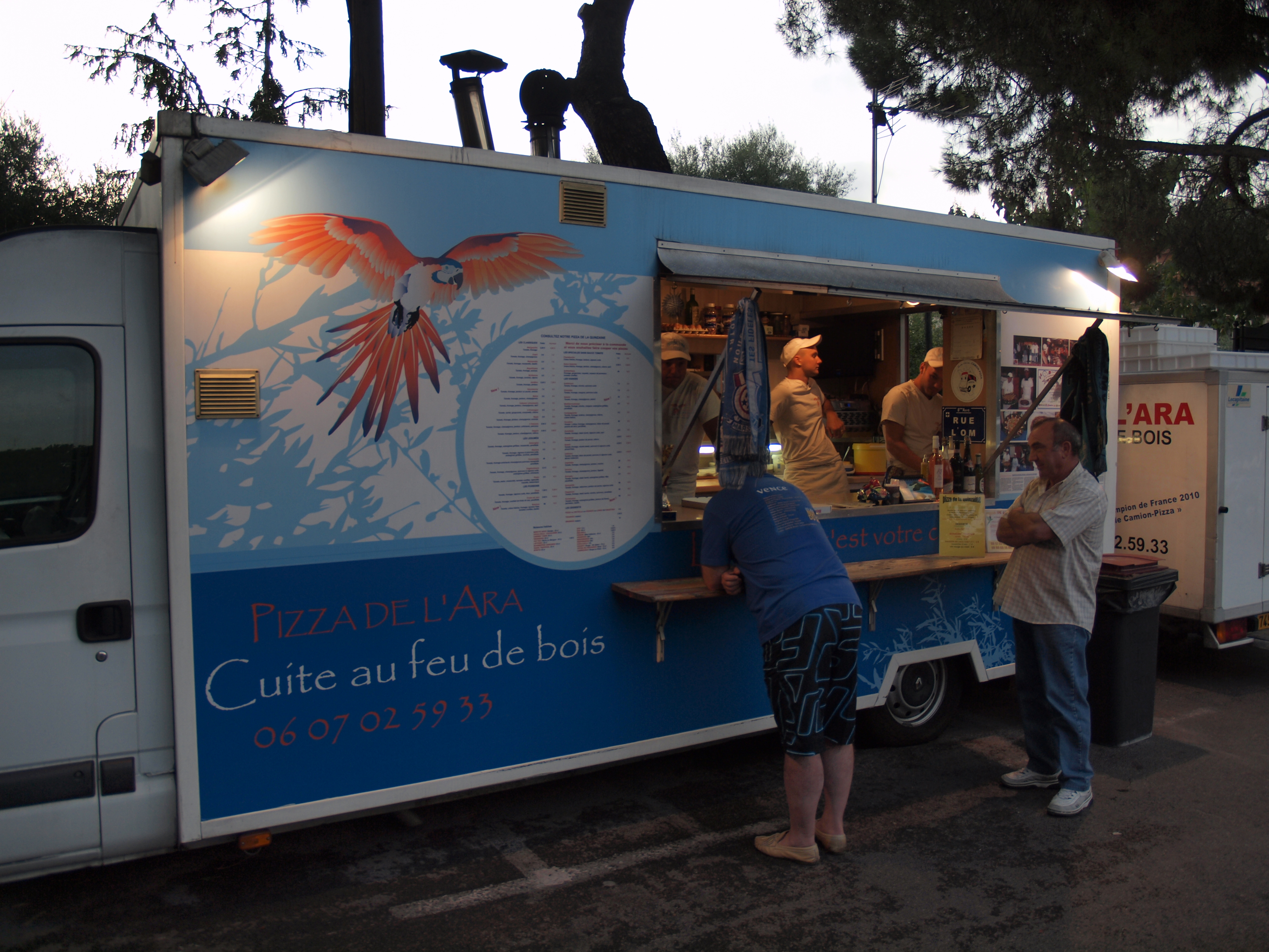 Pizza de l'Ara, a pizzeria operated from the back of a van, in Vence, France.